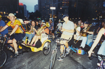 Early image from Time's Up's founding of the pedi-cab industry in New York City.